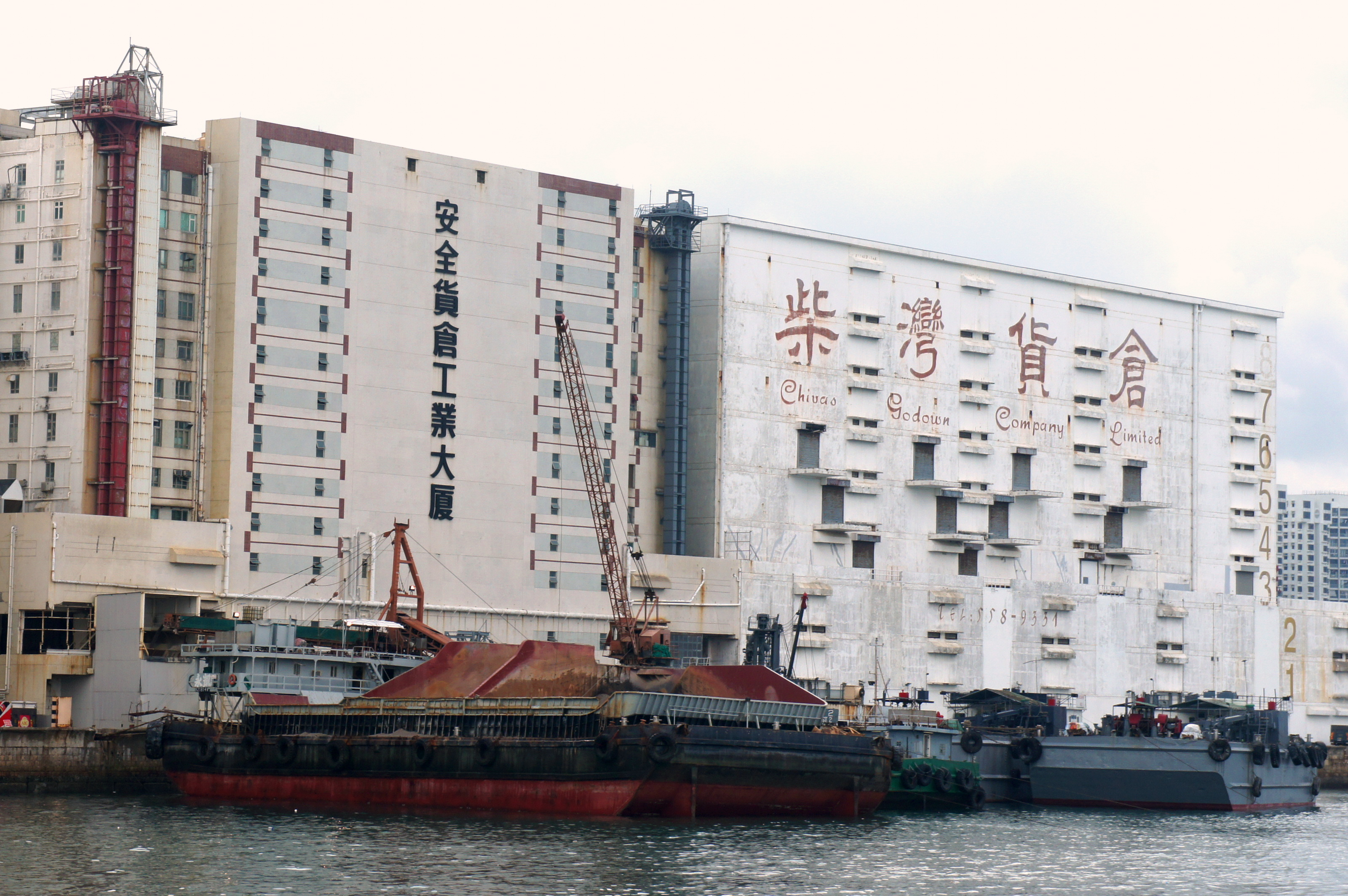 Warehouses in Chai Wan, Hong Kong